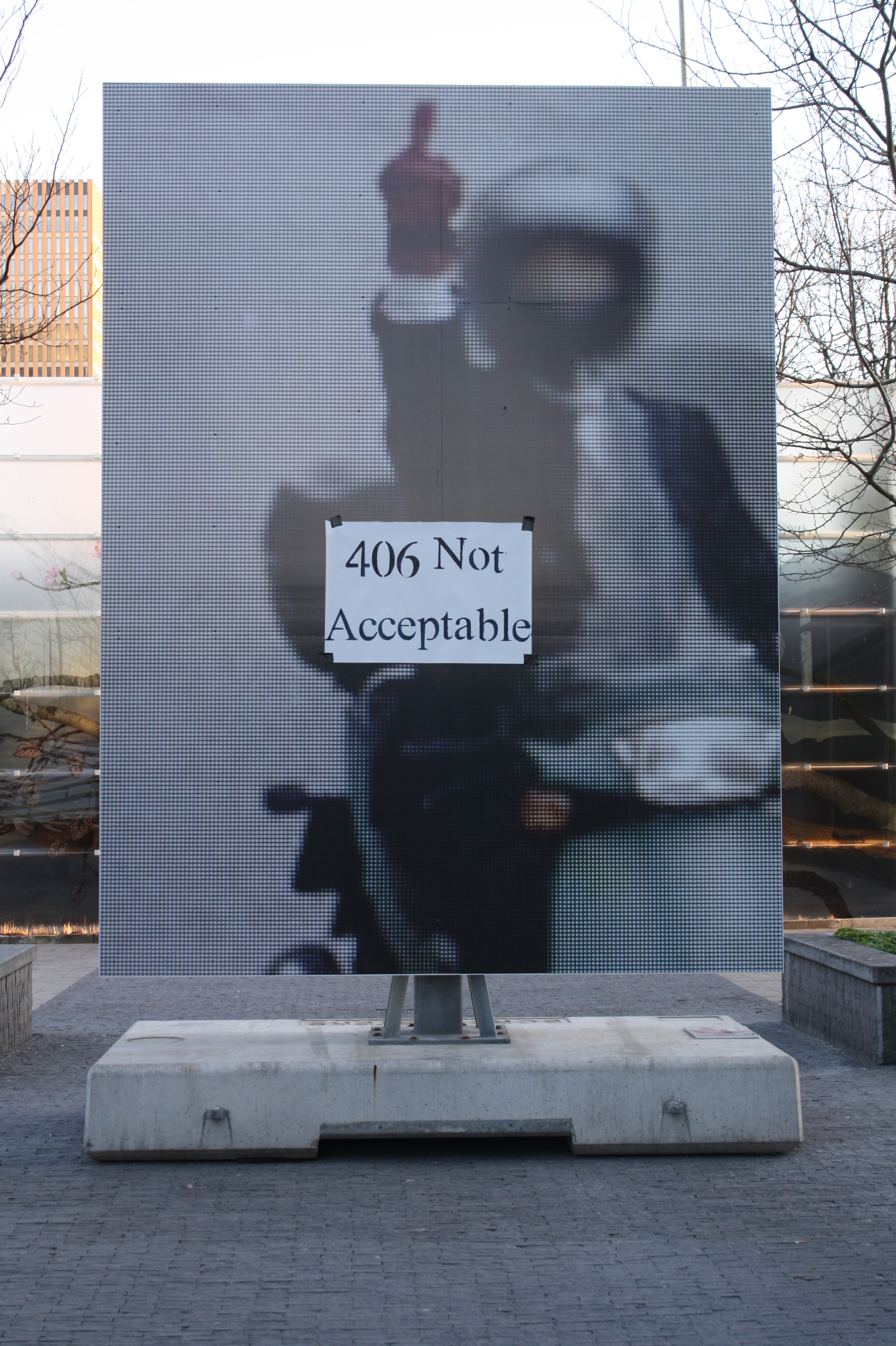 Michael Wolf 406 Not Acceptable